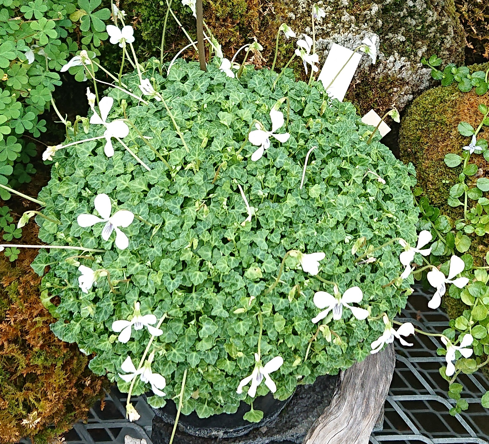 Yakushima Viola or Viola iwagawae, photographed in Tsukuba Botanical Garden, Japan.